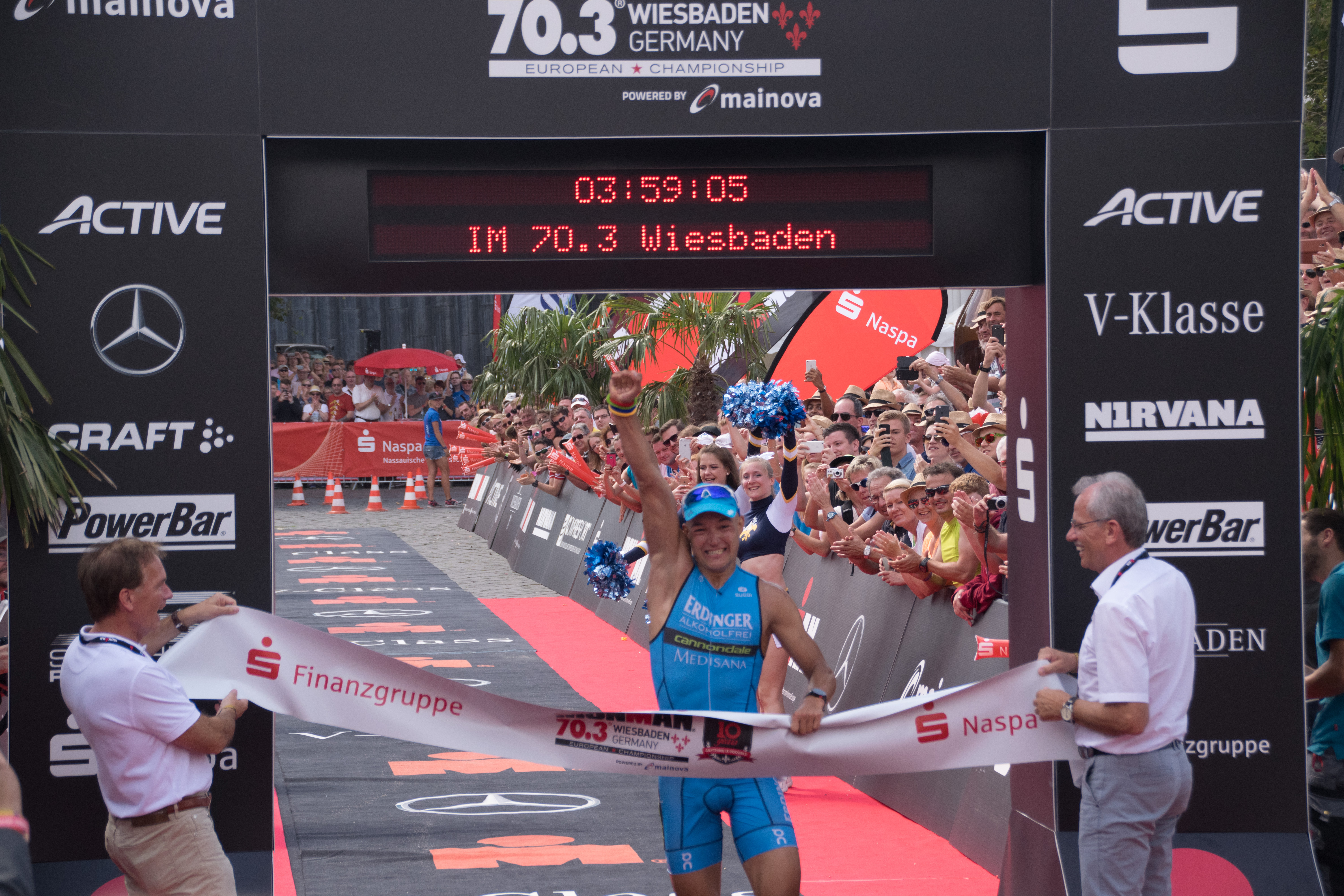 Ironman 70.3 Germany am 14. August 2016 in Wiesbaden